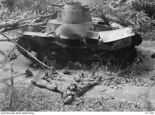 One of the Japanese Type 95 Ha-Go light tanks halted by the Australians' deadly anti-tank gun fire, with its crew lying dead nearby. 1942-01-28